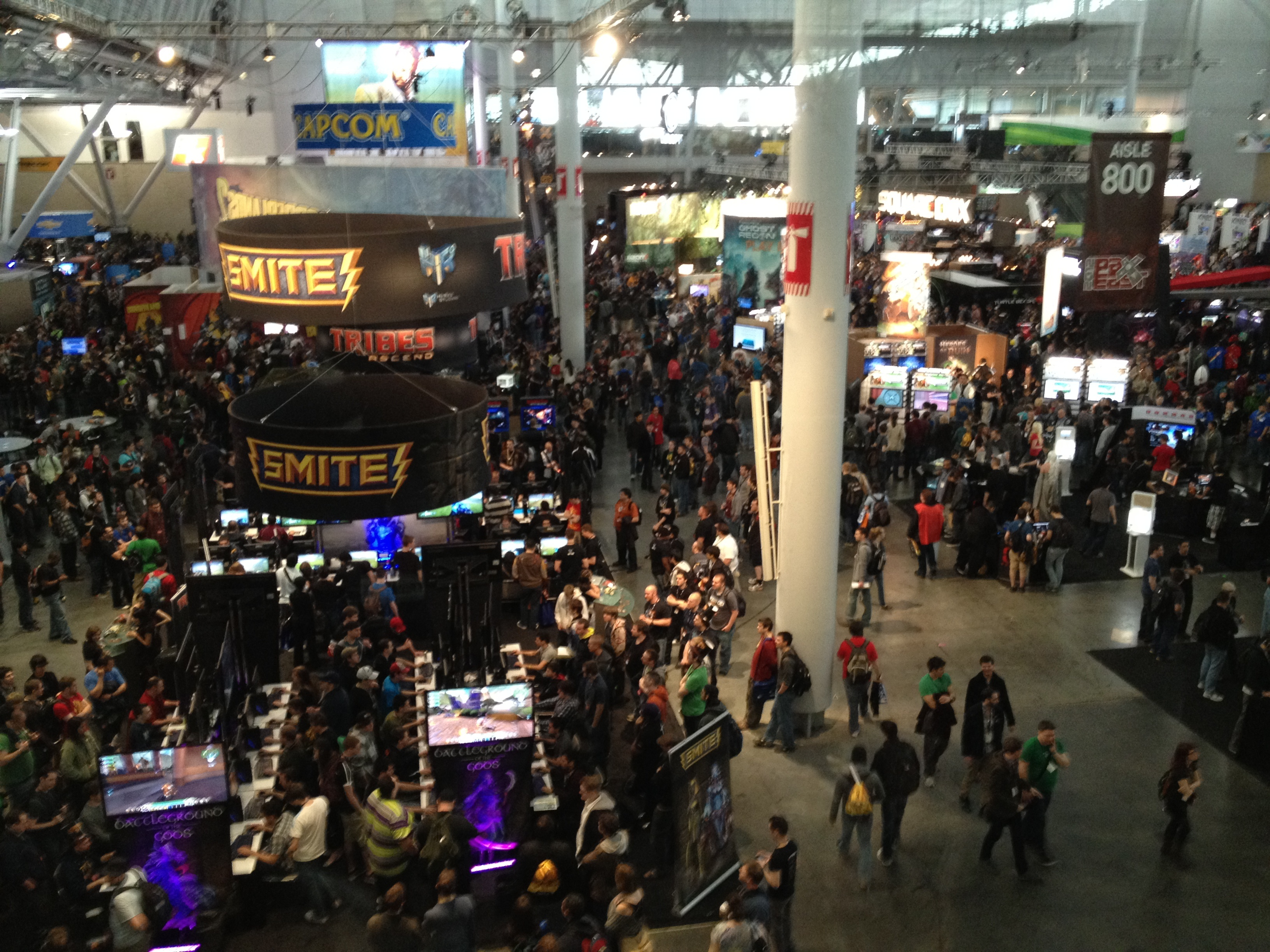 Photograph of the expo hall at PAX East 2012